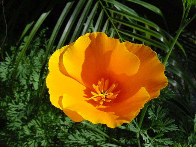 California Poppy